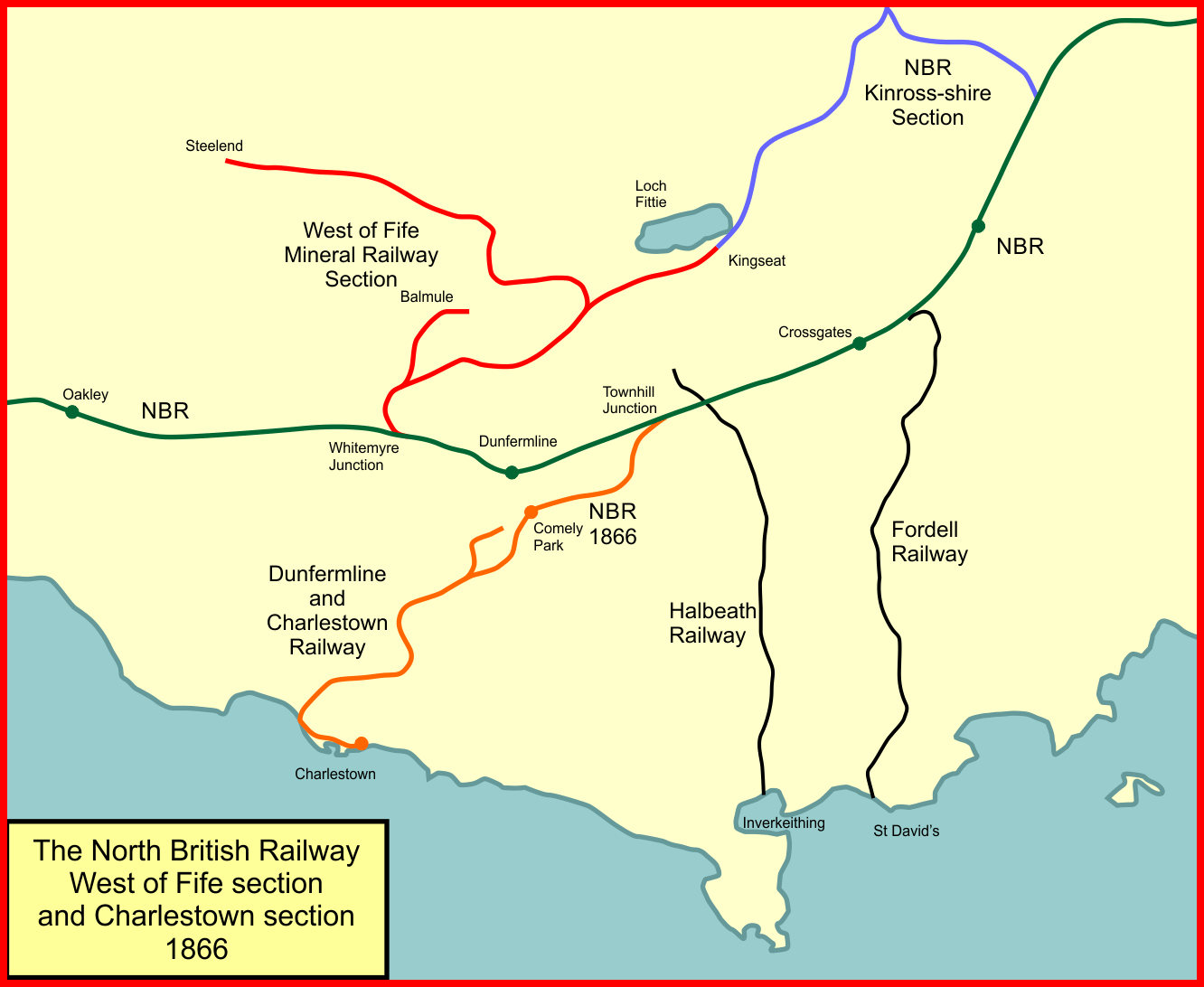 System map of the West of Fife Mineral Railway, Scotland, in 1866